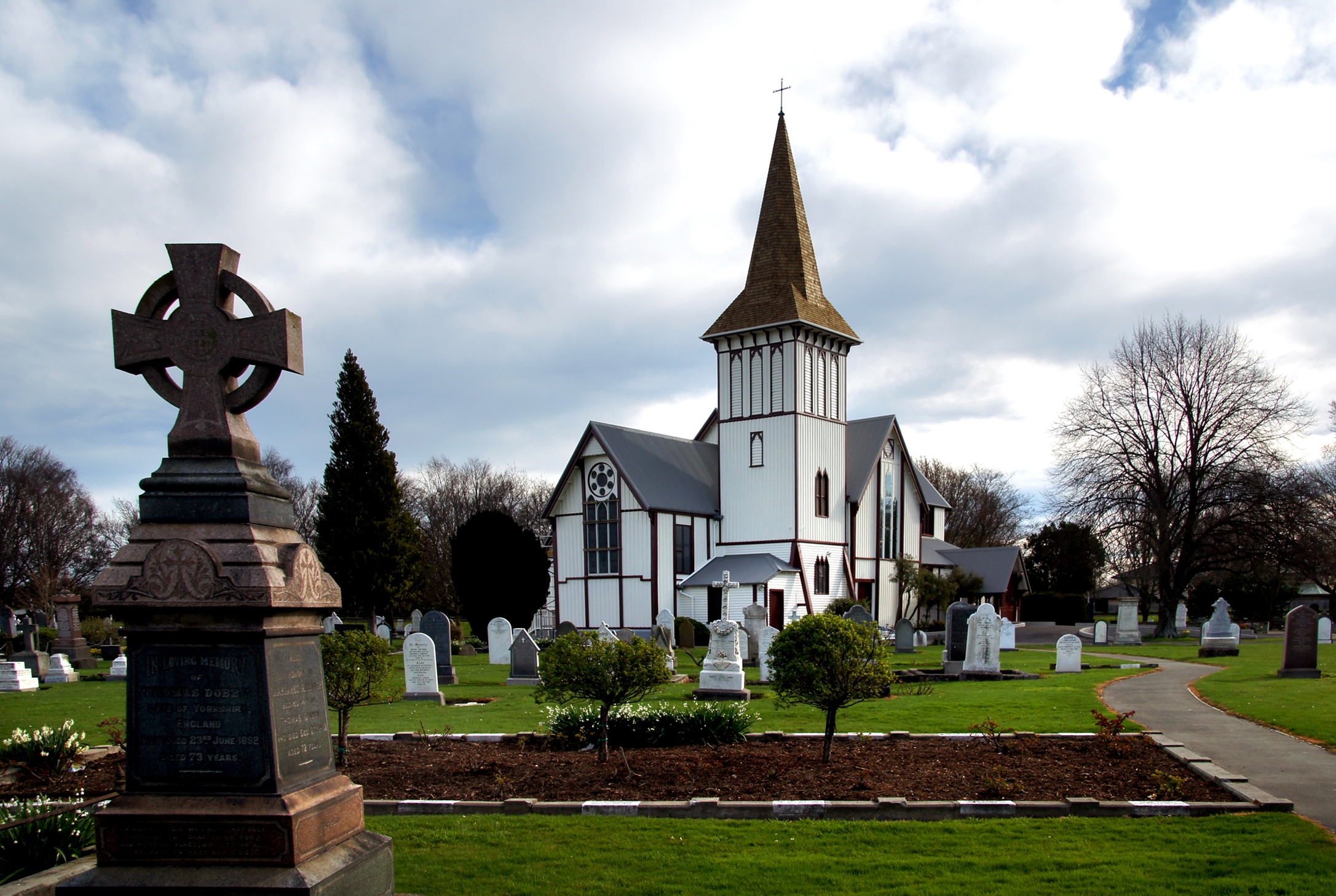 St Paul's Church and Churchyard have a strong visual presence in the centre of the suburb of Papanui and are held in high regard by the general public beyond local residents because of theirs physical and cultural qualities. Since their establishment, the care the St Paul's parish - with community assistance - has given to the Church and the Churchyard environs demonstrates the community's esteem for the place.